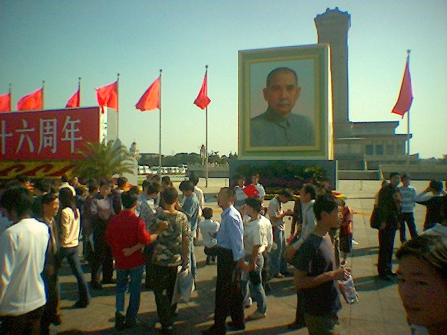 Sun Yatsen tribute in Tiananmen Square.